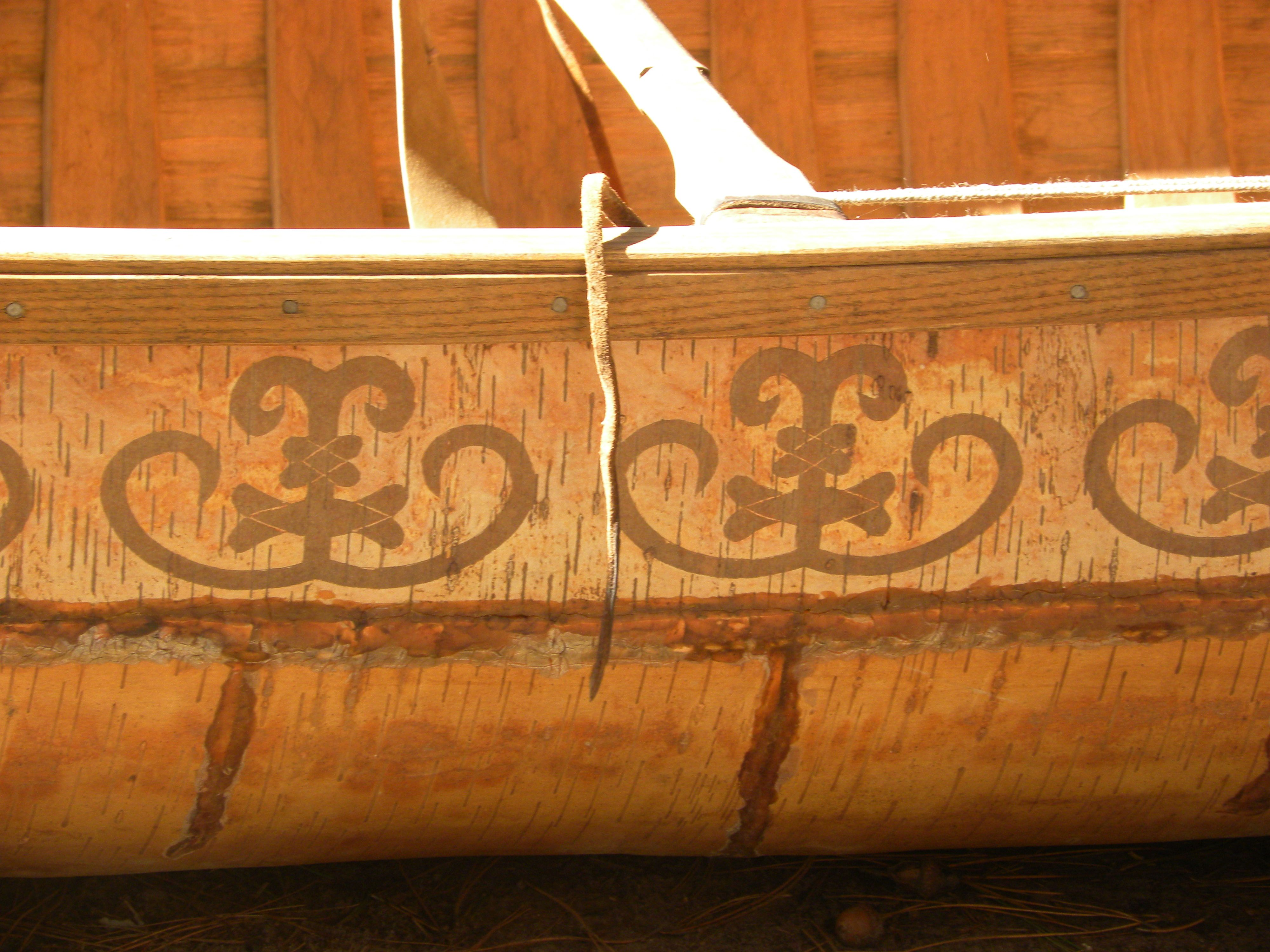 Winter bark etching on canoe built by Ferdy Goode